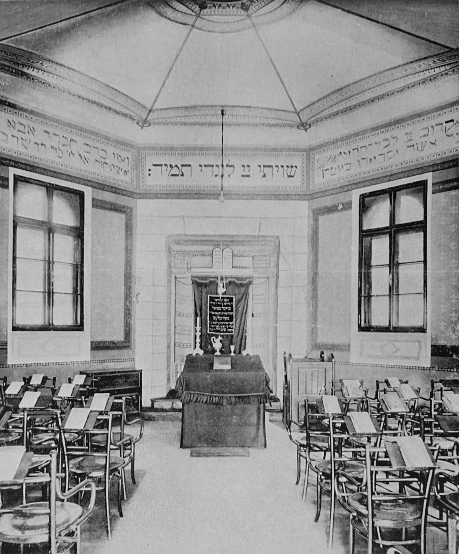 Interior view of the synagogue in the old AKH (general hospital), now campus of the University of Vienna, published by architect Max Fleischer in 1903.